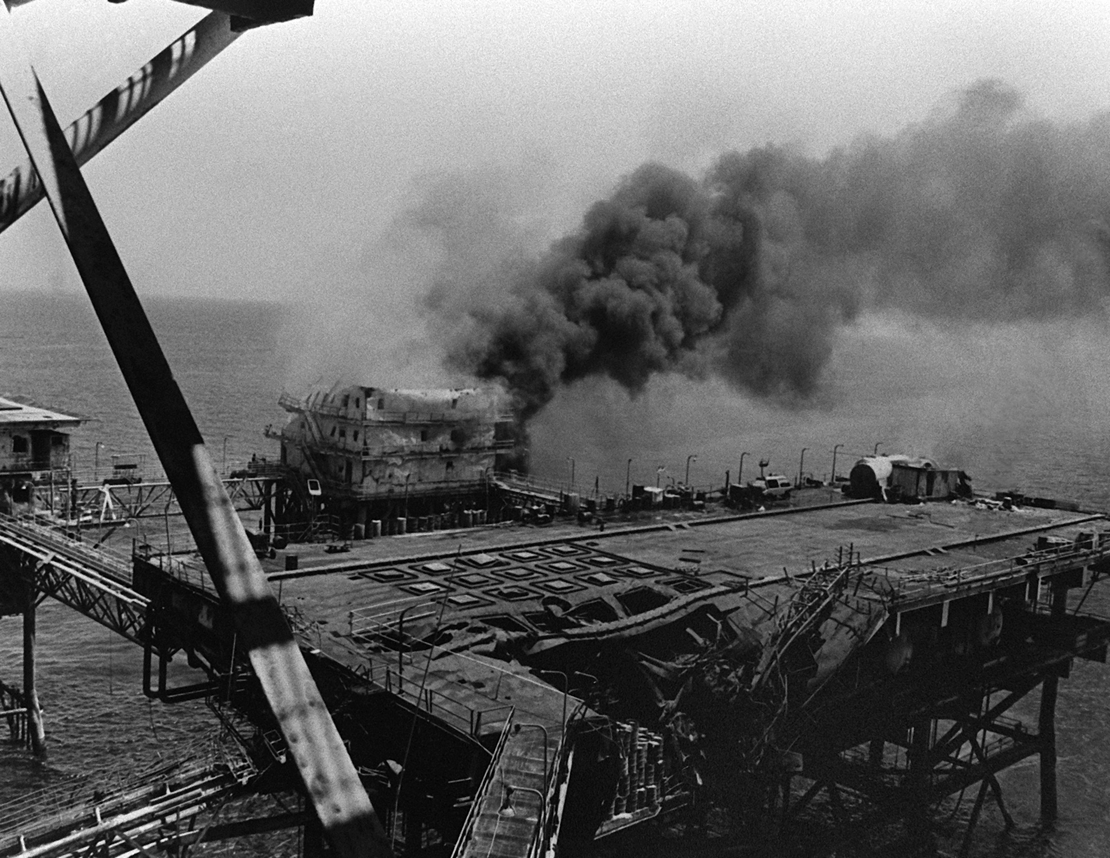 The main building of the Iranian Sassan oil platform burns after being hit by a BGM-71 Tube-launched, Optically-guided, Wire-guided (TOW) missile fired from a United States Marine Corps AH-1 Cobra helicopter. The U.S. attack was part of Operation Praying Mantis which was launched after the guided missile frigate USS Samual B. Roberts (FFG-58) struck an Iranian mine on April 14, 1988.